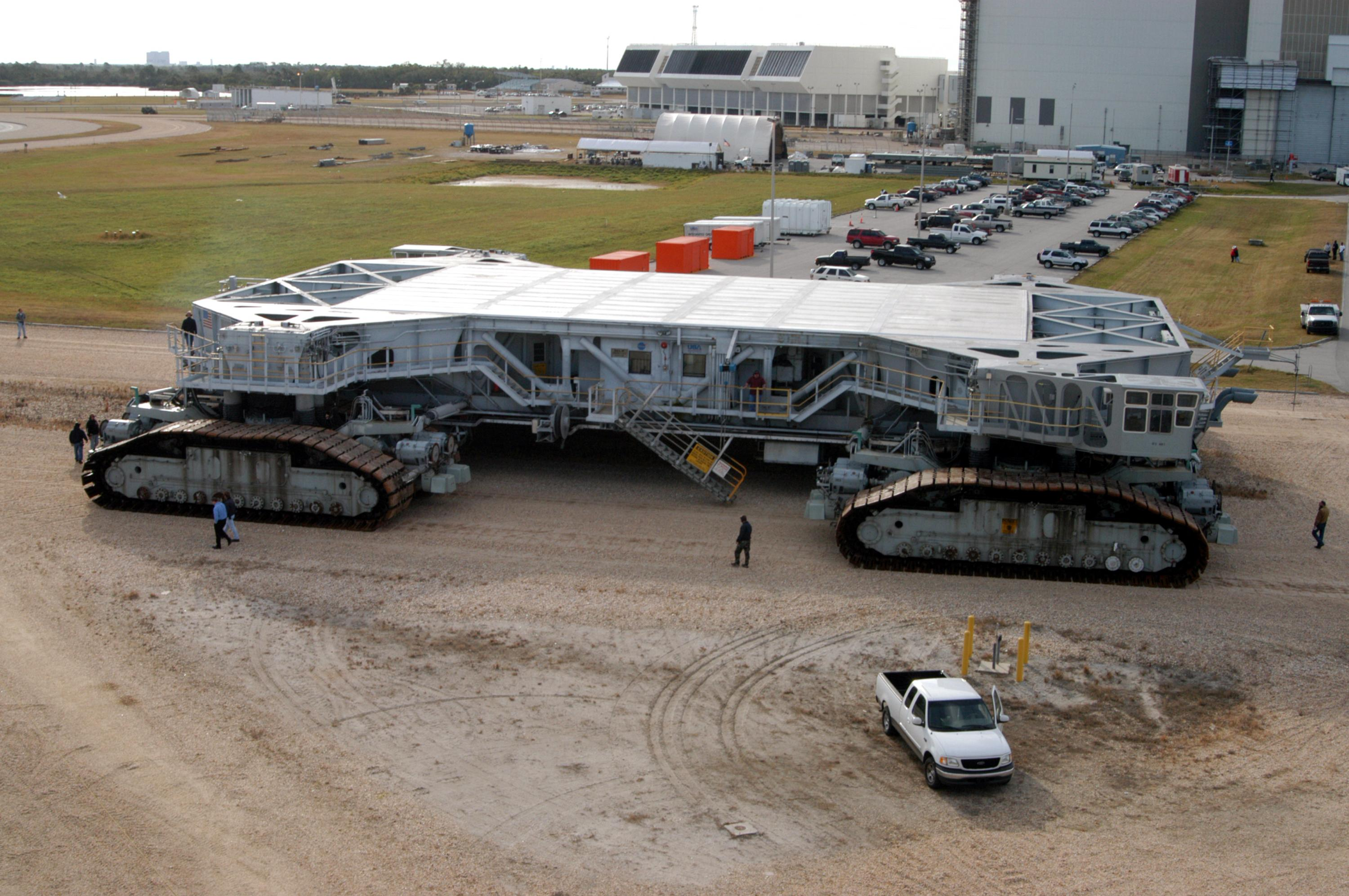 Crawler-transporter #2 beginning a road test on 21 December 2004 after replacement of the shoes on its caterpillar tracks. This replacement is part of the "Return to Flight" program, and Crawler #2 was used to transport Space Shuttle Discovery to the launch pad for the STS-114 mission. The Vehicle Assembly Building is just visible at upper right.